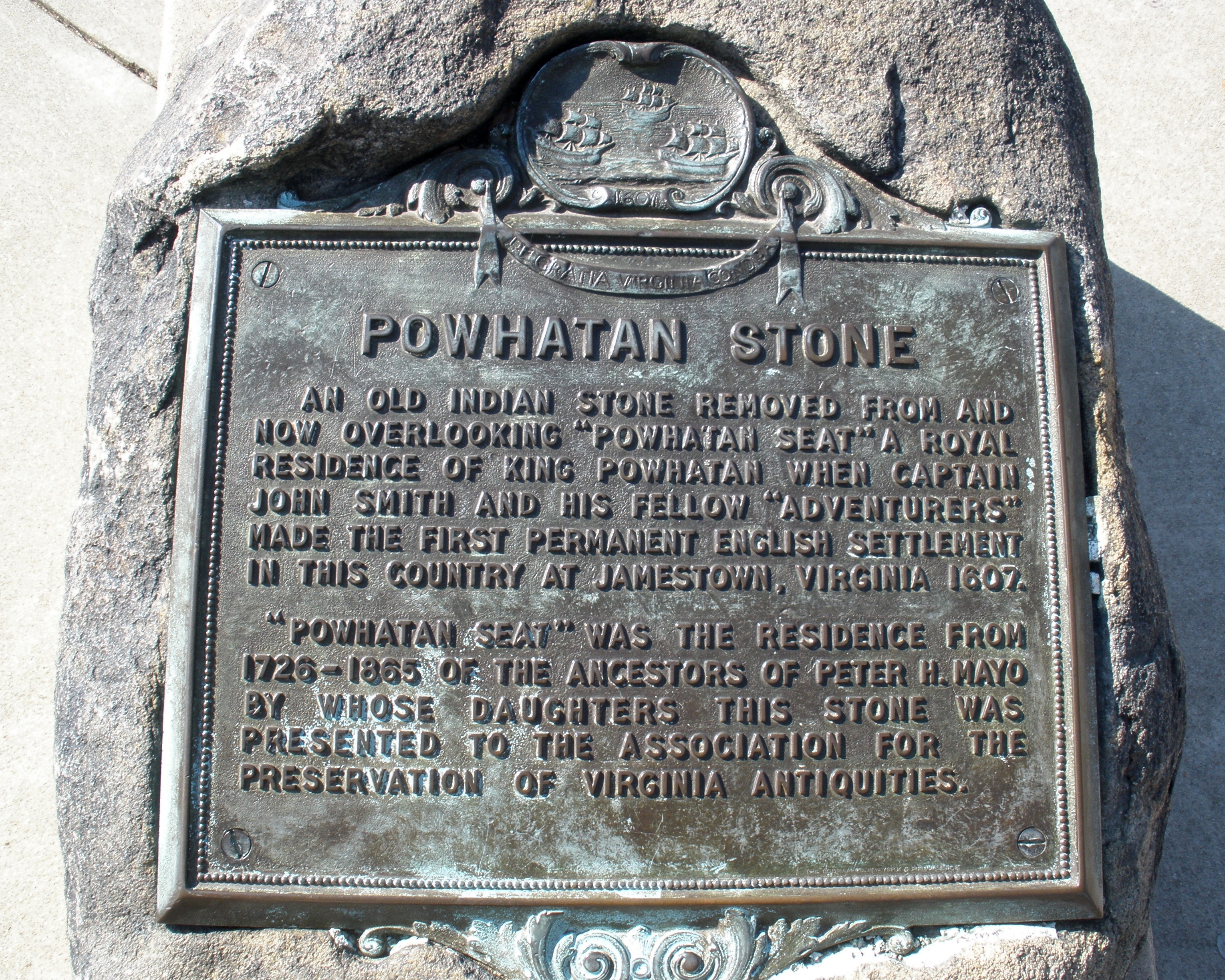 Powhatan Stone, erected by the Association for the Preservation of Virginia Antiquities in Chimborazo Park, Richmond, Virginia (from The Historical Marker Database (